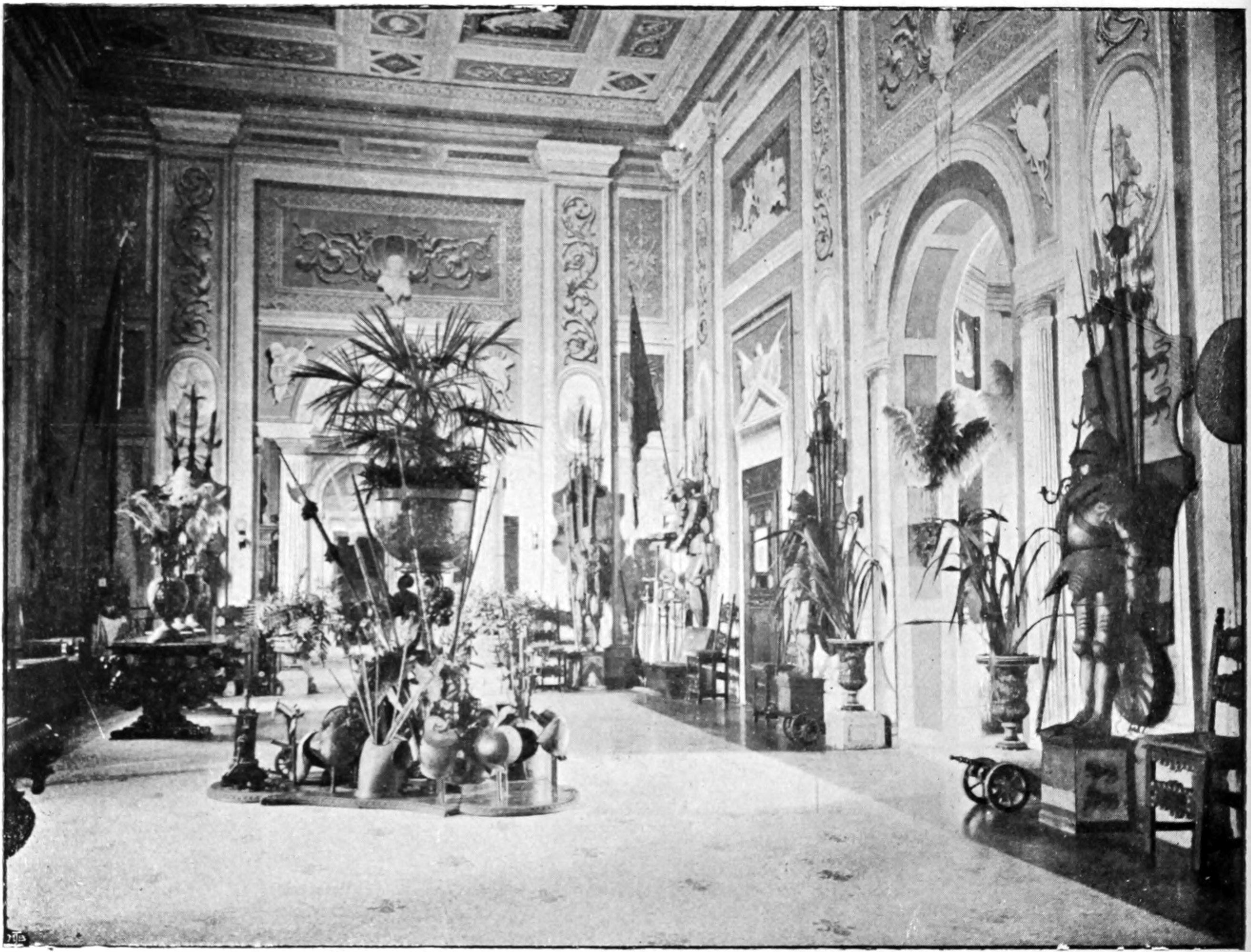 Image from book: Leopoldo Pullè, Patria Esercito Re, Ulrico Hoepli, Milan, 1908.